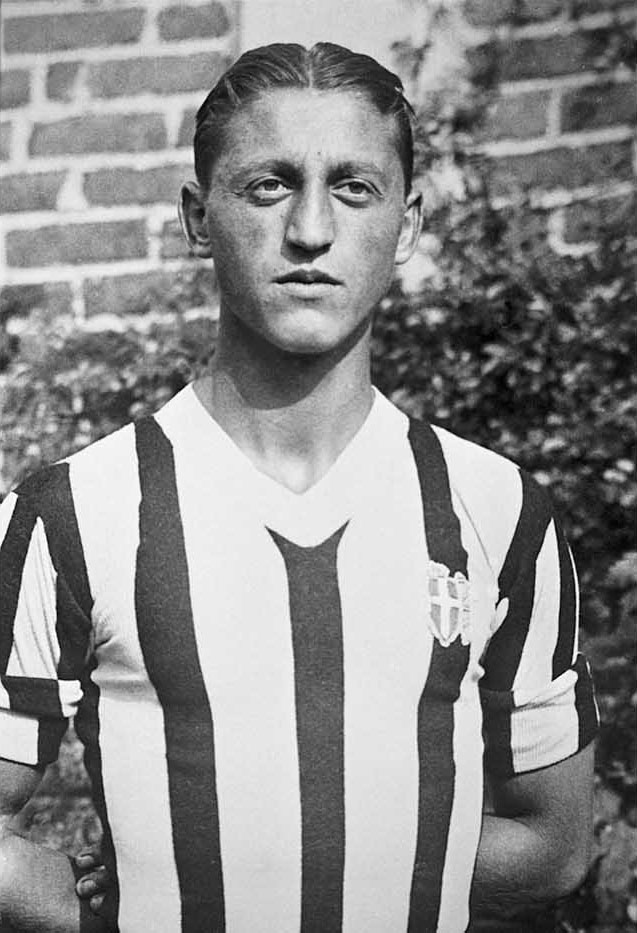 Italian footballer Pietro Rava with F.B.C. Juventus in the 1935–36 season.